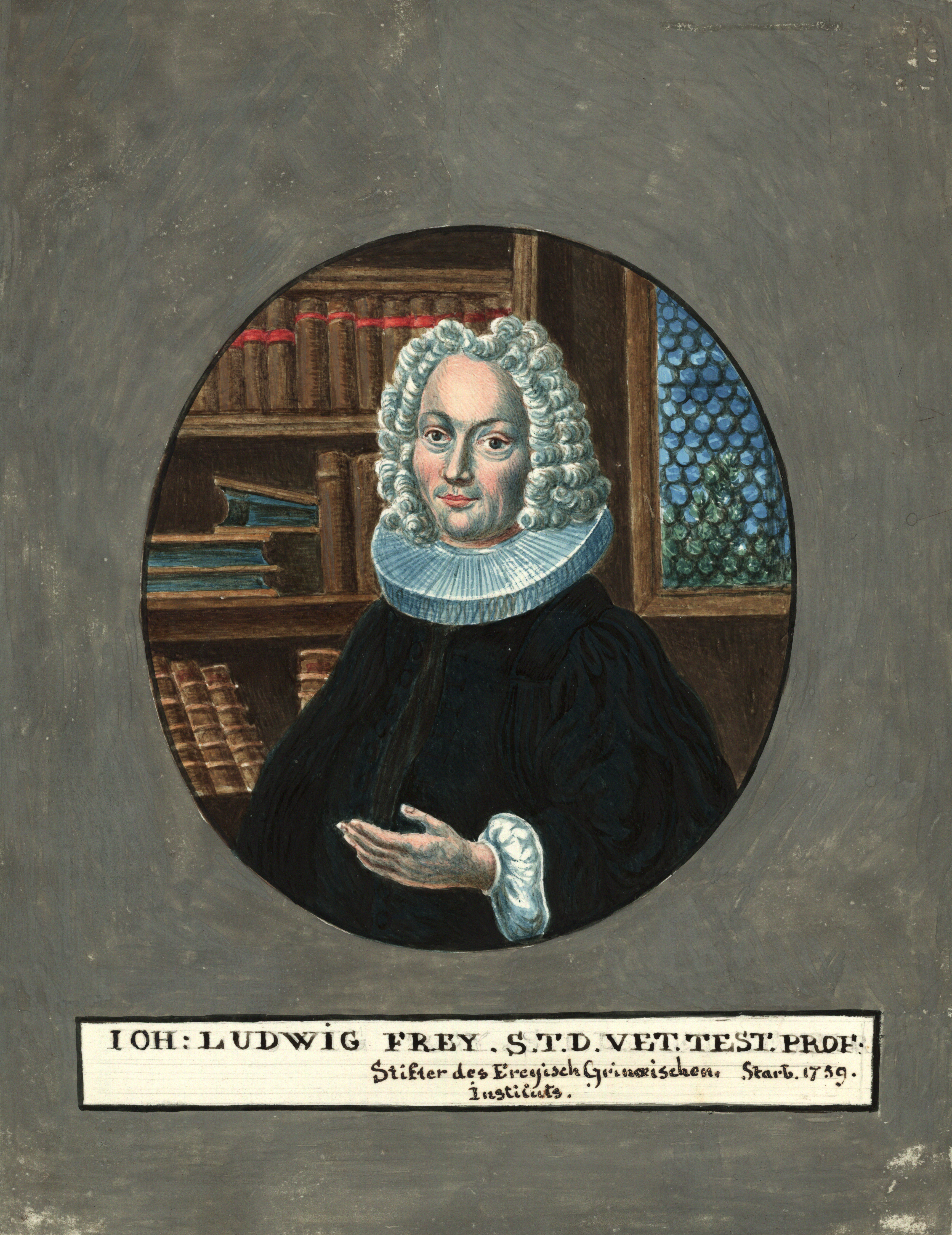 Portrait of Johannes Grynaeus (1705-1744), watercolor